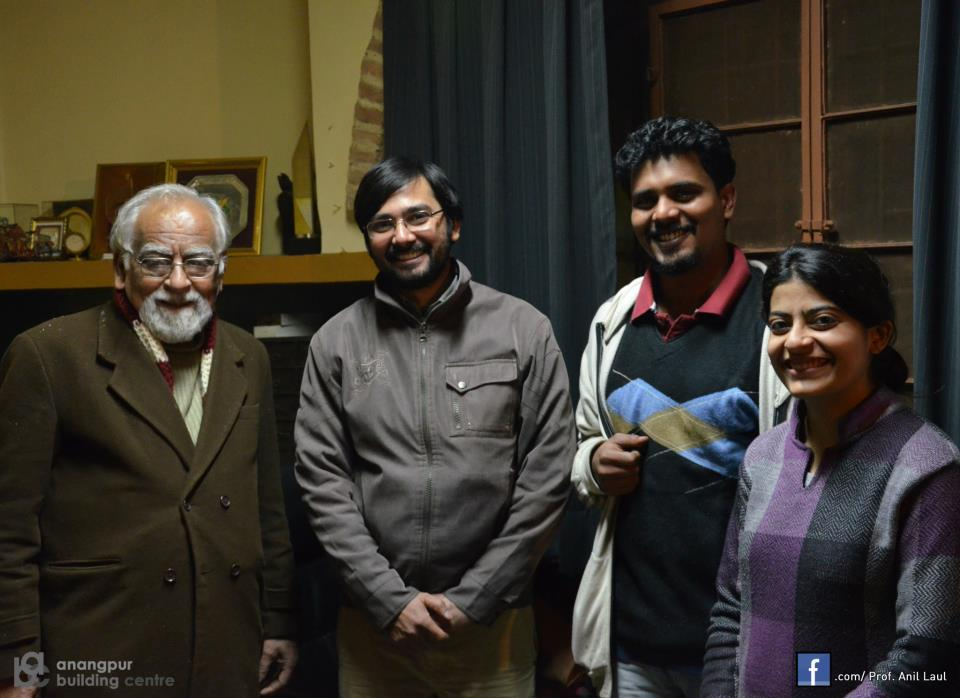 Anil Laul with Abhishek Sharma, Siddharth Ravishankar and Tanya Pahwa during Hands on Workshop at ASHRA Anangpur Building Centre, Delhi